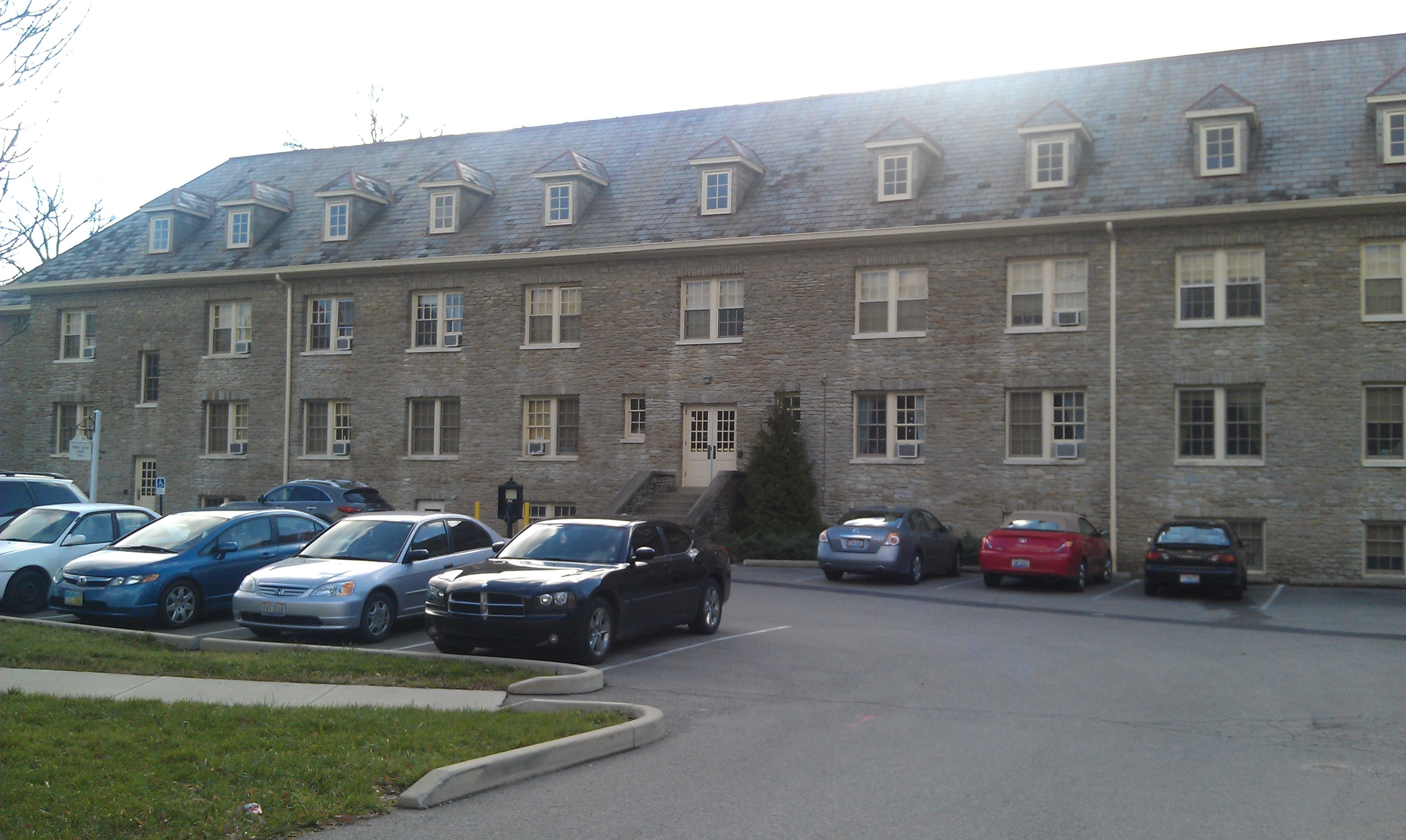 Photo taken from the north side of the residence hall in 2011.